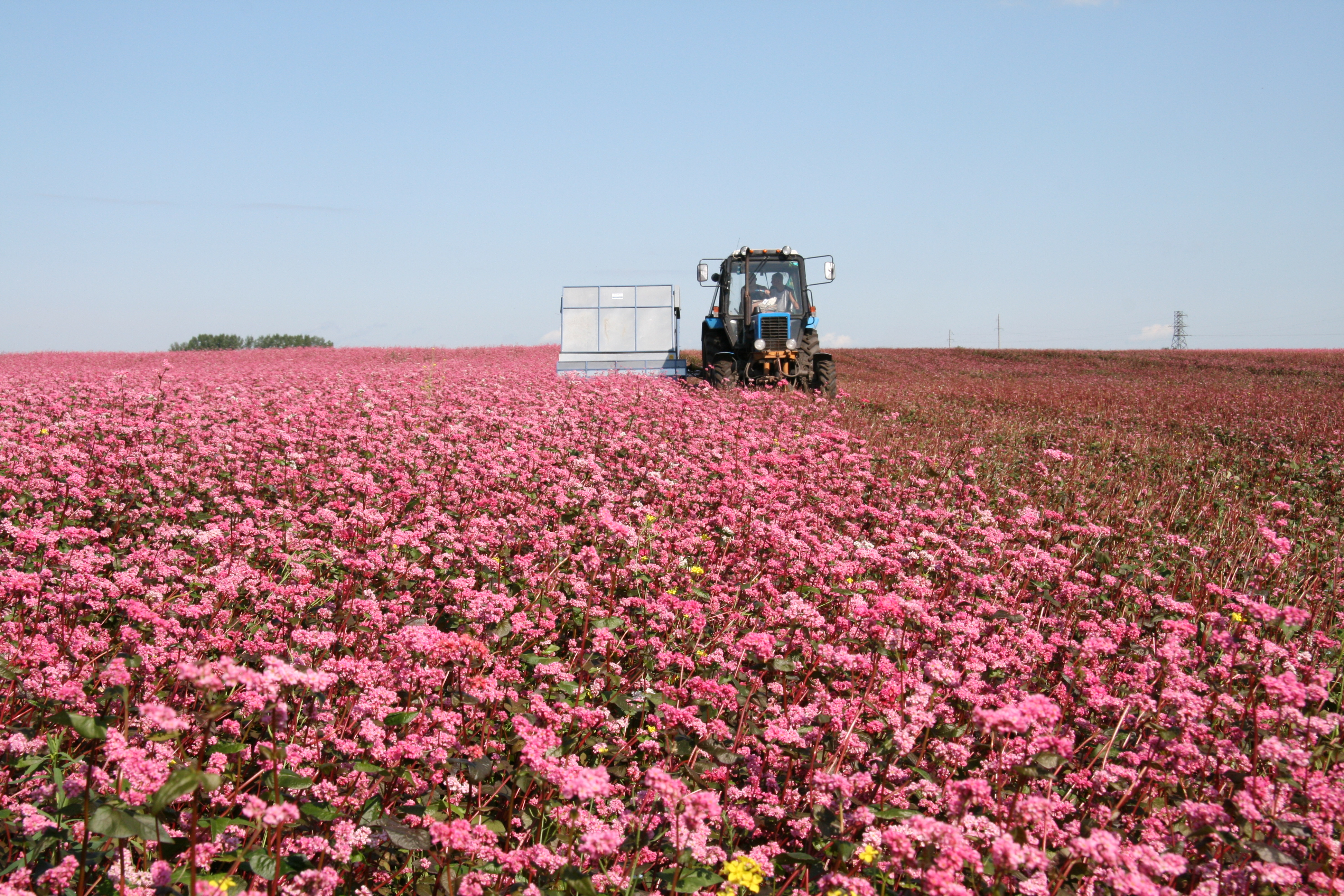 Плантации "Эвалара", Бийск, Алтайский край, Россия